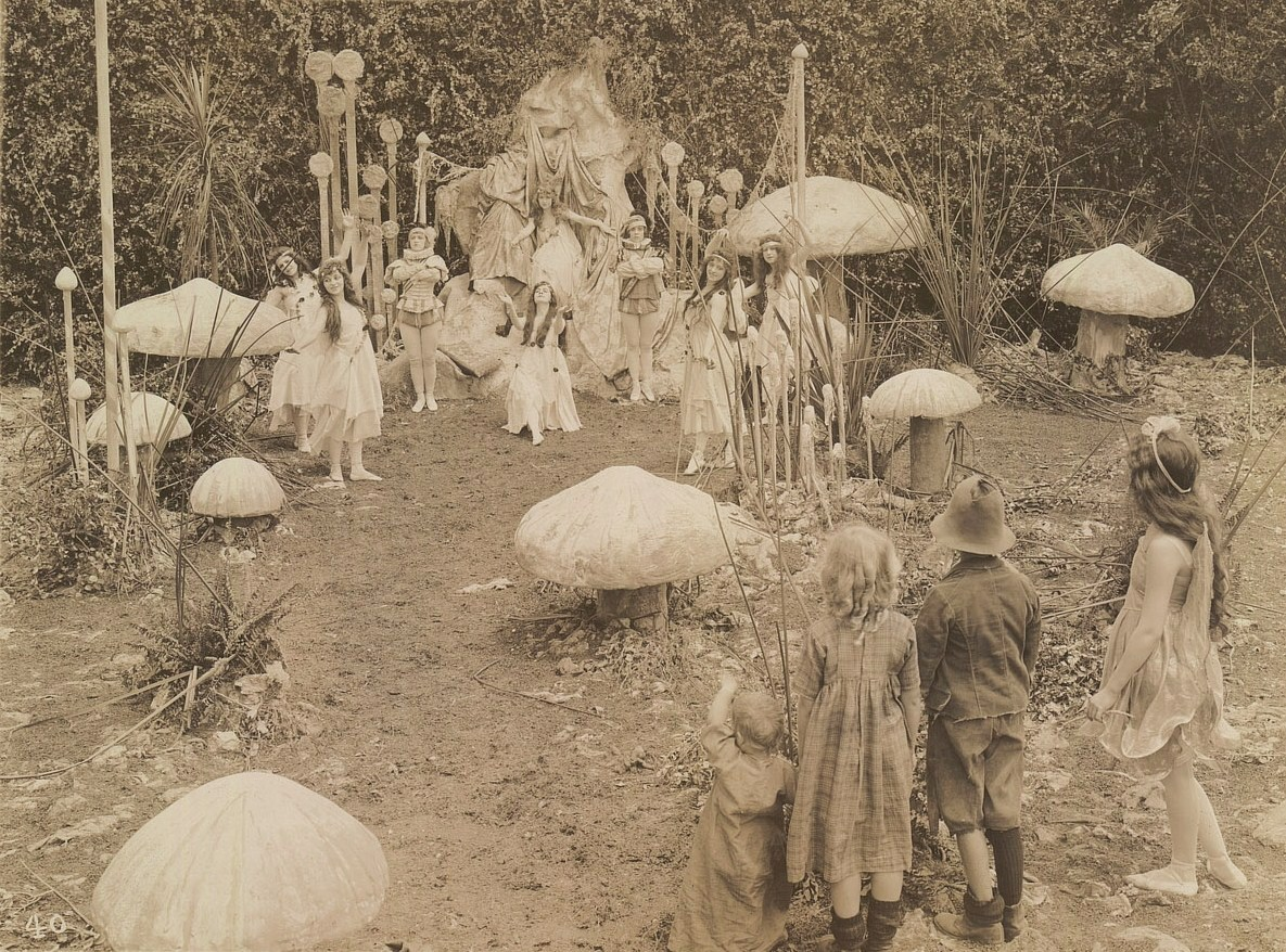 In Slumberland, directed by Irvin Willat - publicity still (cropped)